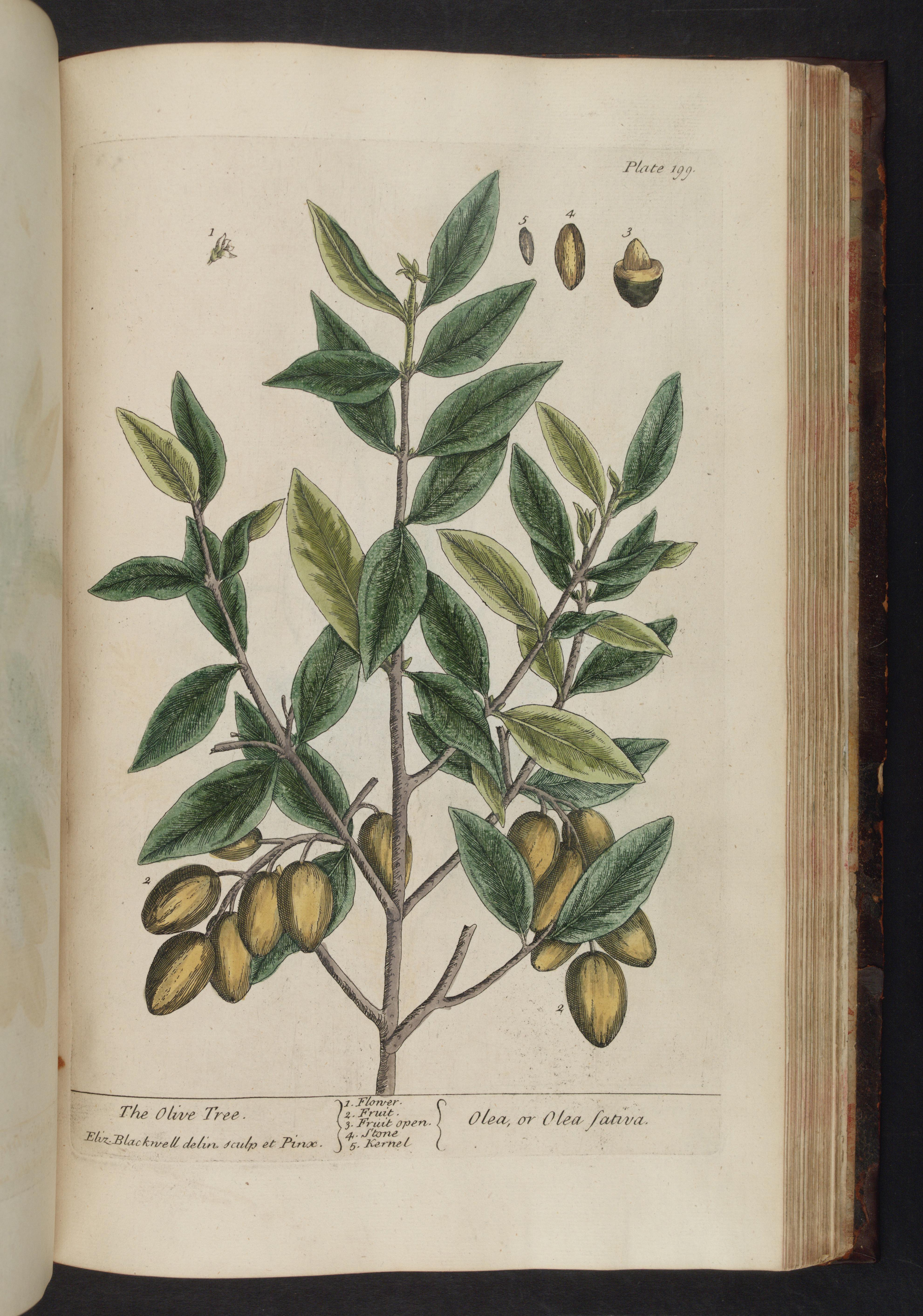 A curious herbal :containing five hundred cuts, of the most useful plants, which are now used in the practice of physick engraved on folio copper plates, after drawings taken from the life /by Elizabeth Blackwell. To which is added a short description of ye plants and their common uses in physick.